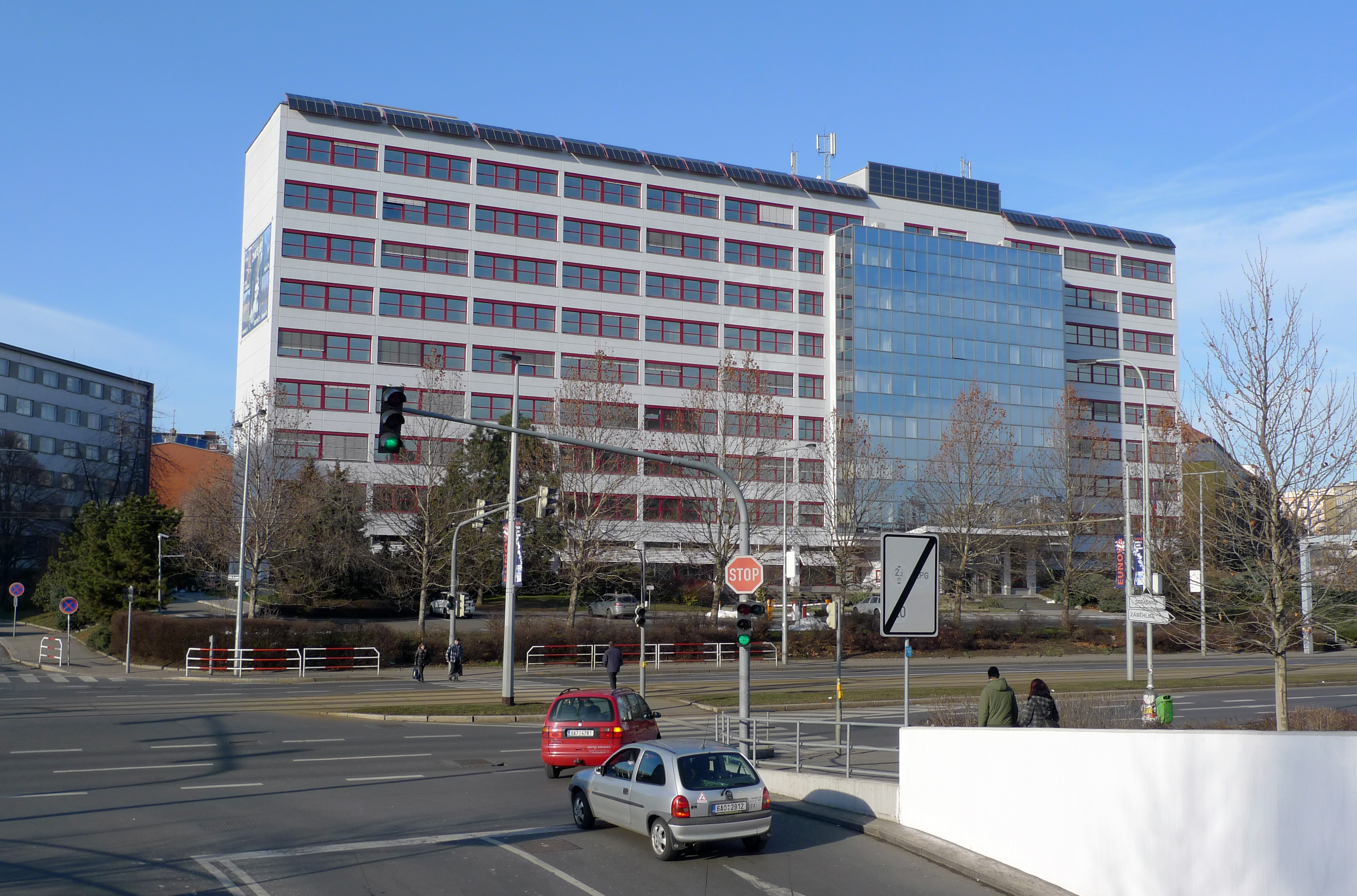 Ministry of Enviroment building (65 Vršovická Street) Prague-Vršovice, Czech Republic.